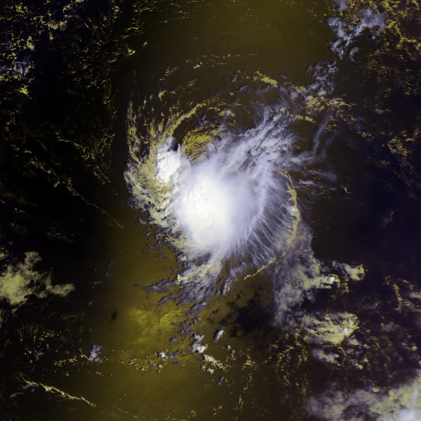 Tropical Storm Ingrid on September 14 at approximately 1310 UTC. This image was produced from data from MetOp-2/A, provided by NOAA.